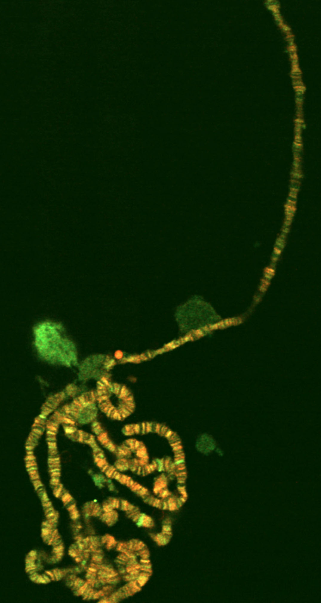 Polyten chromosome from fly salivary gland